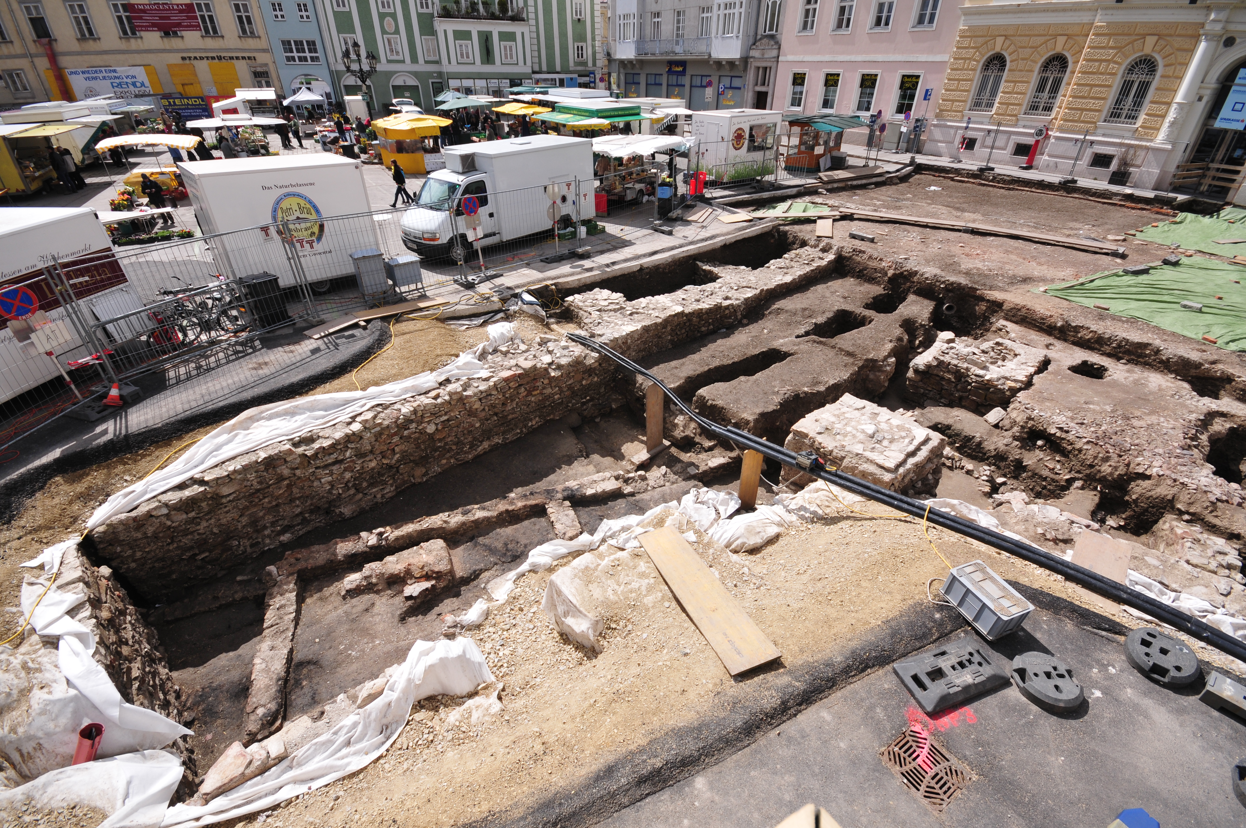 St. Pölten, Austria Fotowanderung St. Pölten 13. April 2013 in St. Pölten, Niederösterreich 50mm • Allgemeines • Bahnhof • Domplatz • Fahrräder • Landhausviertel • Rathausplatz This file is used in a Wikiversity project or course. Please don't change it before you inform the author.